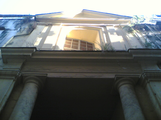 Churc of Santa Teresella degli Spagnoli